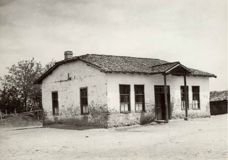 Old primary-school in Belozem, build in 1928